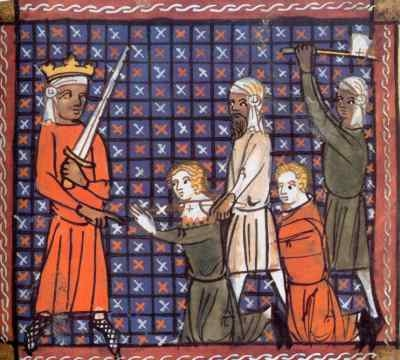 massacre